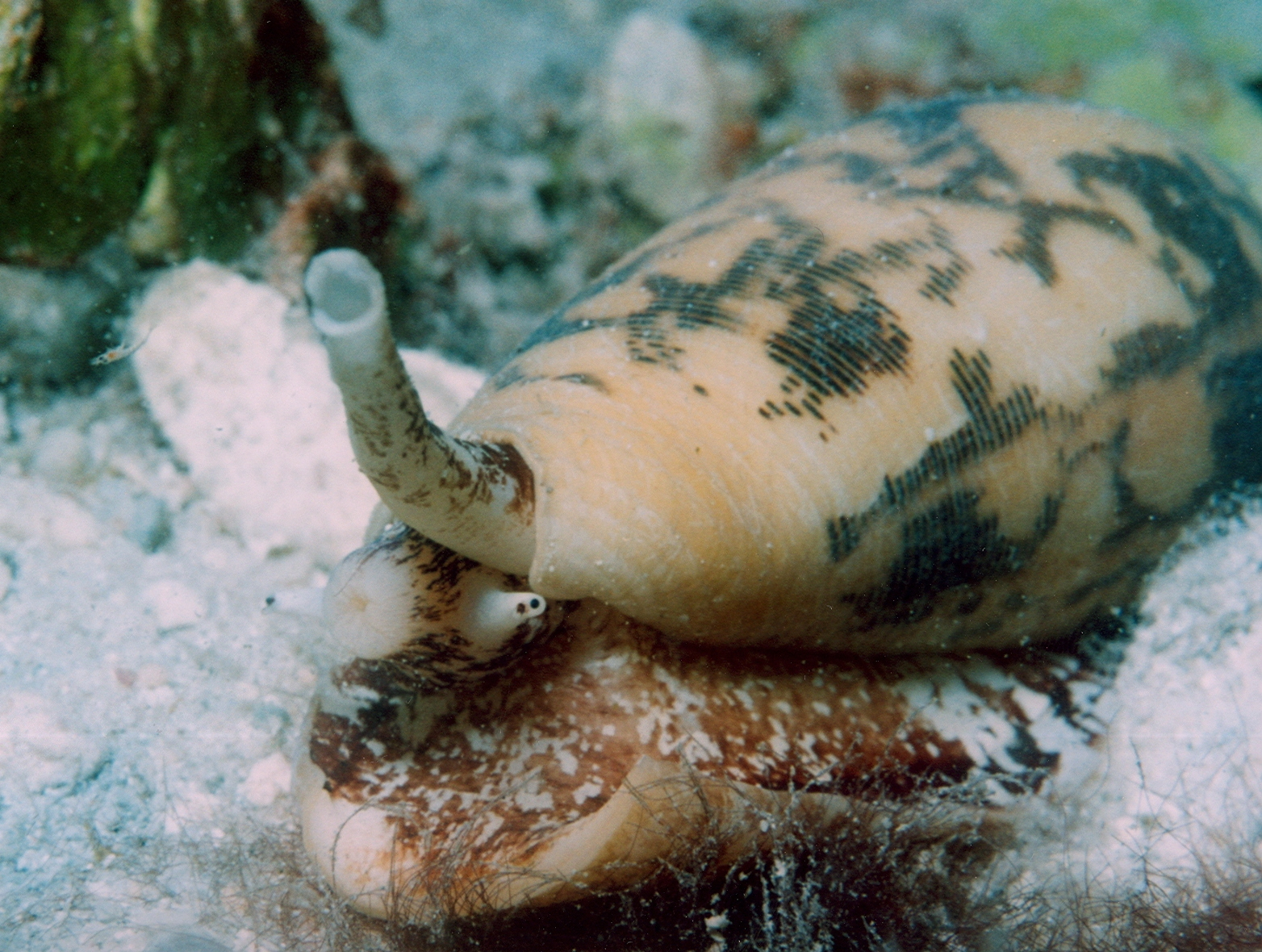 Cone shell (Conus sp.). Mariana Islands, Guam.